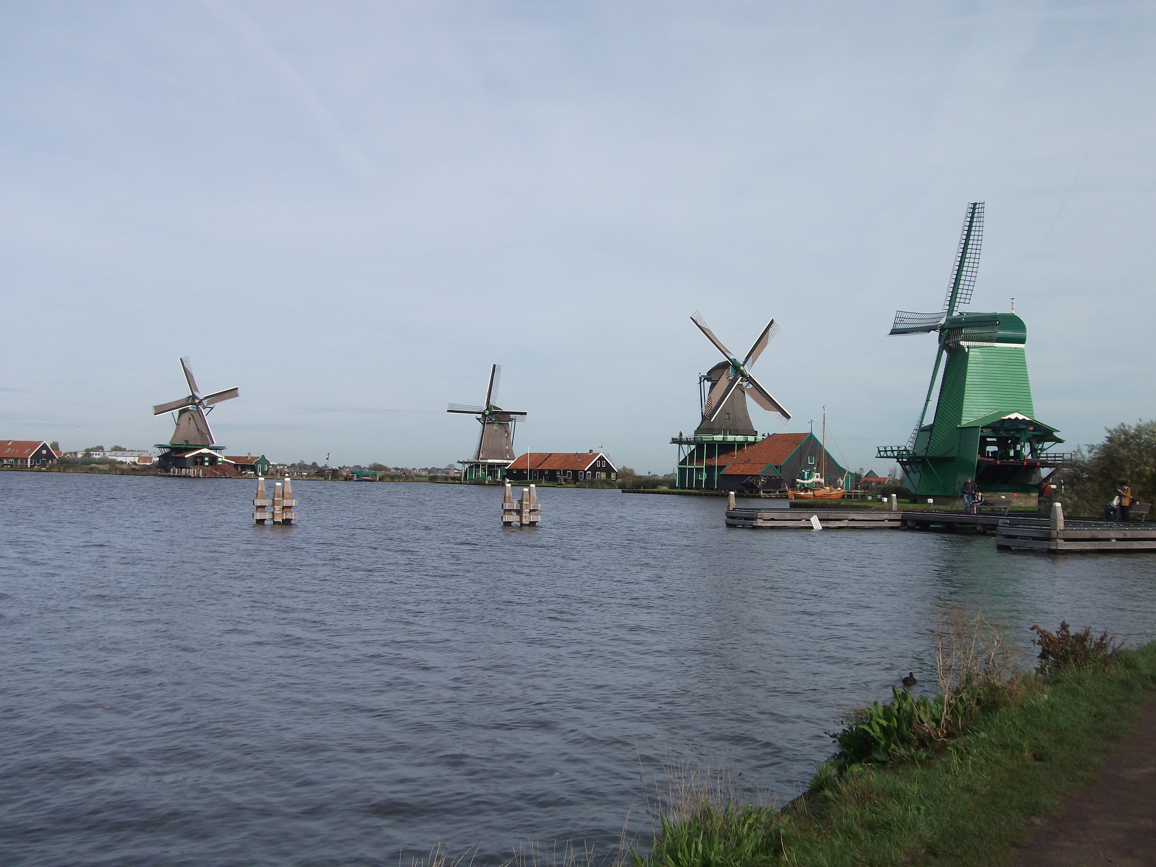 Zaanse Schans, October 2014